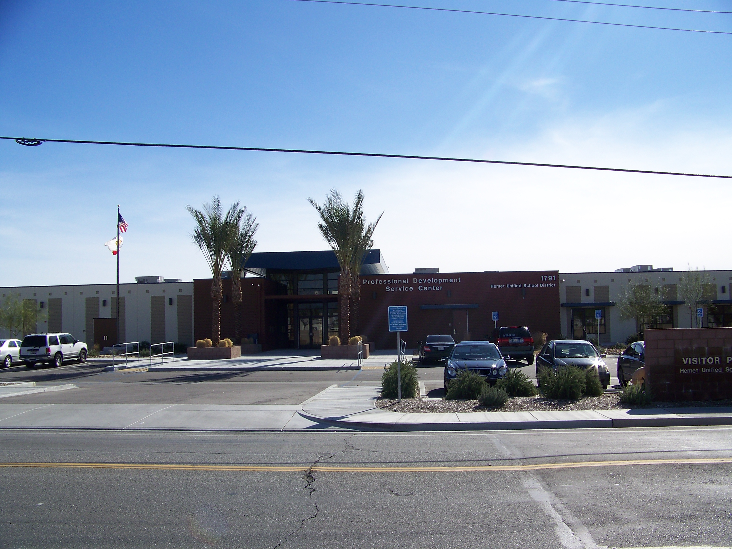 Hemet Unified School District Office